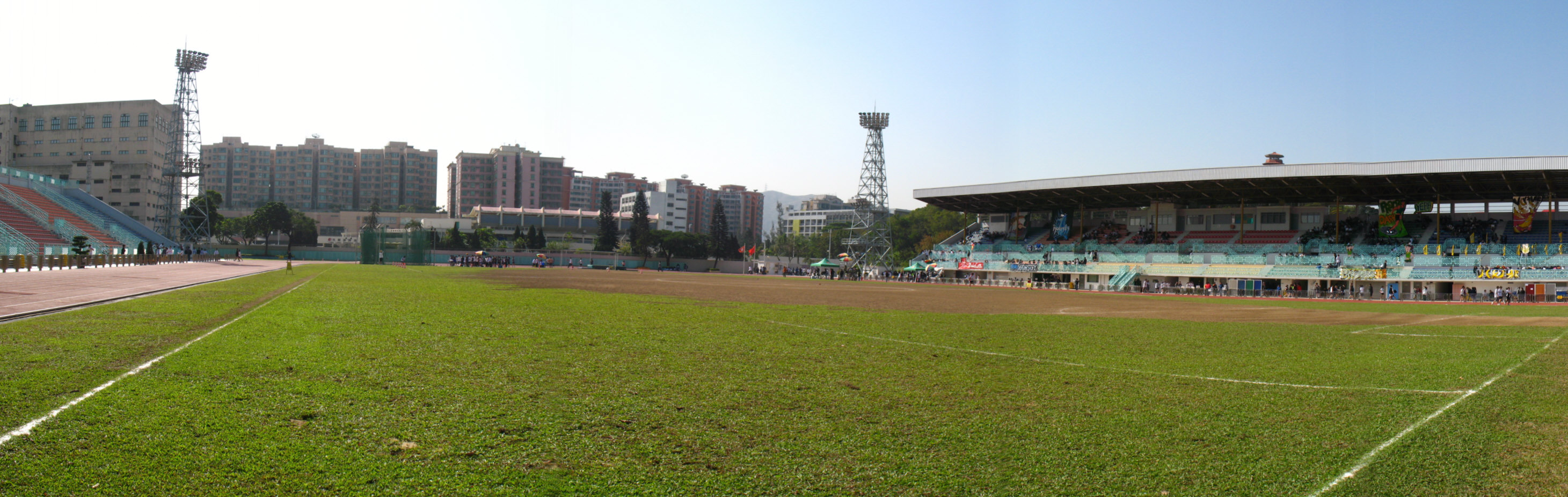 Yuen Long Stadium 中文（香港）: 元朗大球場